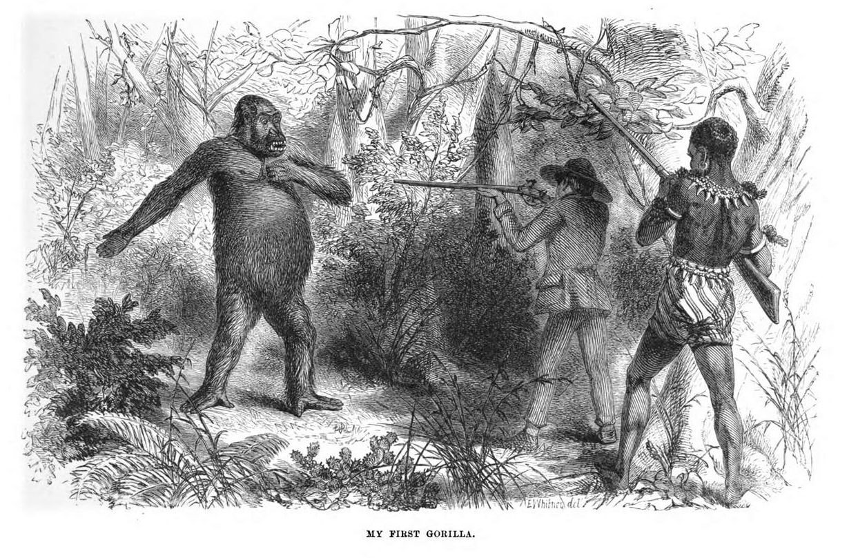 French explorer Paul du Chaillu at close quarters with a gorilla. Explorations and adventures in Equatorial Africa, British original edition, p.71